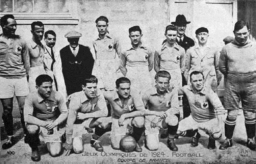 The France national football team that competed at the Summer Olympics held in Paris, France. Standing: Édouard Baumann, Ernest Gravier, Marcel Domergue, Antoine Parachini, Philippe Bonnardel, Pierre Chayriguès. Bended: Jules Devaquez, Jean Boyer, Paul Nicolas, Édouard Crut, Raymond Dubly.